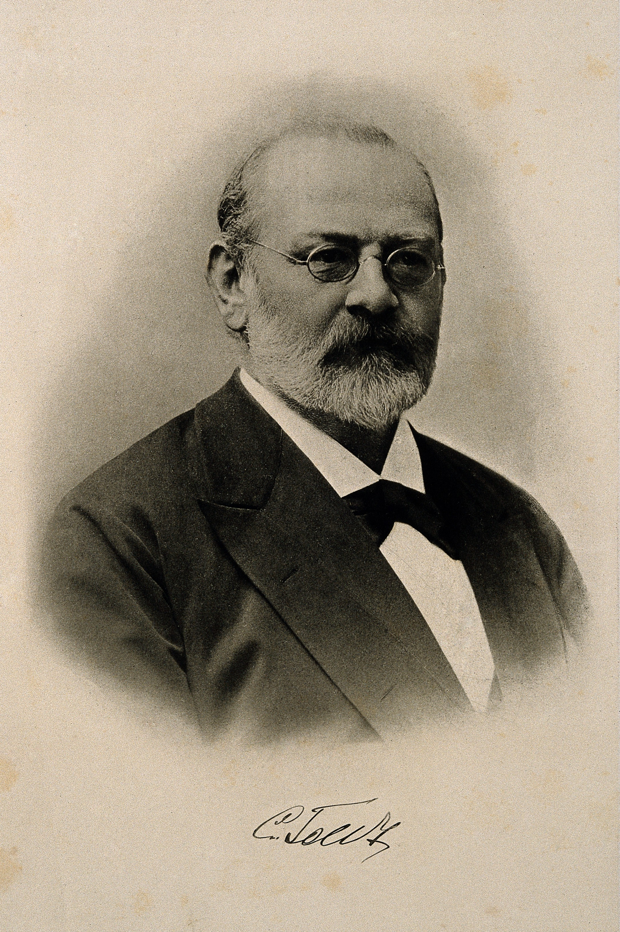 Carl Toldt. Photogravure. Iconographic Collections Keywords: portrait prints; Carl Toldt; photogravures